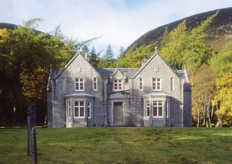 Glas-allt-Shiel, Glen Muick Taken from the small pier on Loch Muick